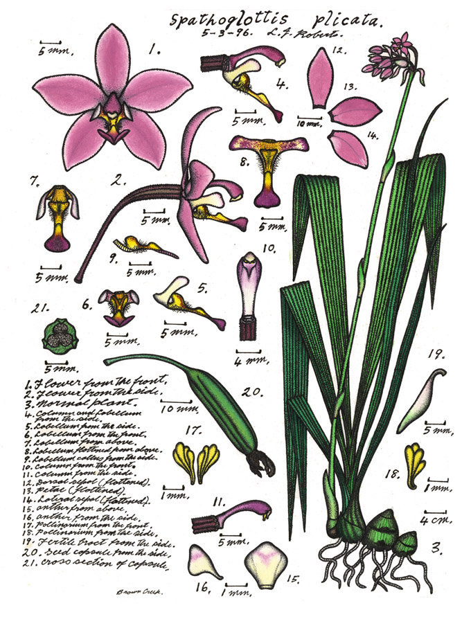 This image is one of a series by Lewis Roberts